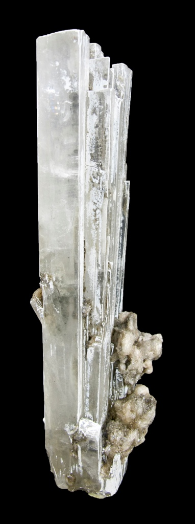 Inderite Locality: US Borax Open Pit — U.S. Borax Mine (Pacific West Coast Borax; Pacific Coast Borax Co.; Boron Mine; U.S. Borax and Chemical Corp.; Kramer Mine; Baker Mine), Kramer Borate deposit, Boron, Kramer District, eastern Kern County (Mojave Desert), Southern California, U.S. (Locality at ) Size: 8.3 x 2.4 x 2.0 cm A well-formed, long prismatic inderite crystal of lustrous and translucent pale white color. The crystal exhibits an unusually sharp termination. Inderite is a hydrated magnesium borate and this is a superb example of the species. It was collected by Jim Minette in 1959, in Extension #1 of the mine. Ex. James and Dawn Minette Collection.